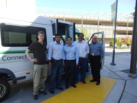 U.S. Federal Communications Commission chairman Julius Genachowski (middle) in front of the shuttle connected to the first white space radio network (Microsoft Research Redmond campus, Saturday, August 14, 2010). Also pictured is Microsoft's Chief Research and Strategy Officer Craig Mundie (far right).